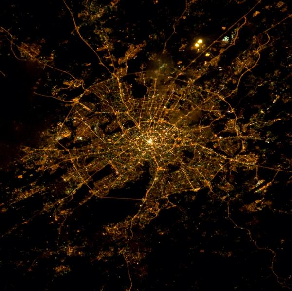 ISS view of Moscow in September 2014